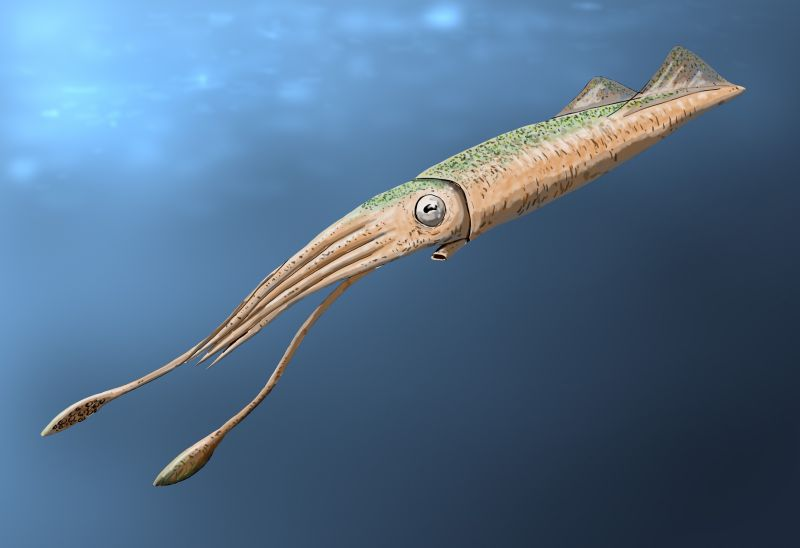 Background restoration of Tusoteuthis longa, a giant squid from the Late Cretaceous of North America. Digital painting and drawn by pencil.